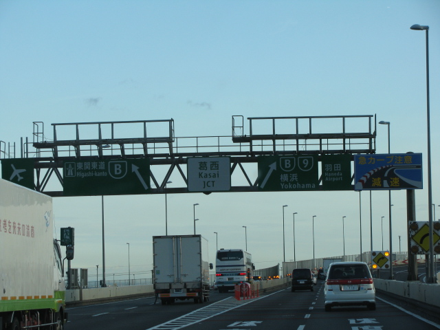 Kasai Junction on the Metropolitan Expressway Route C2